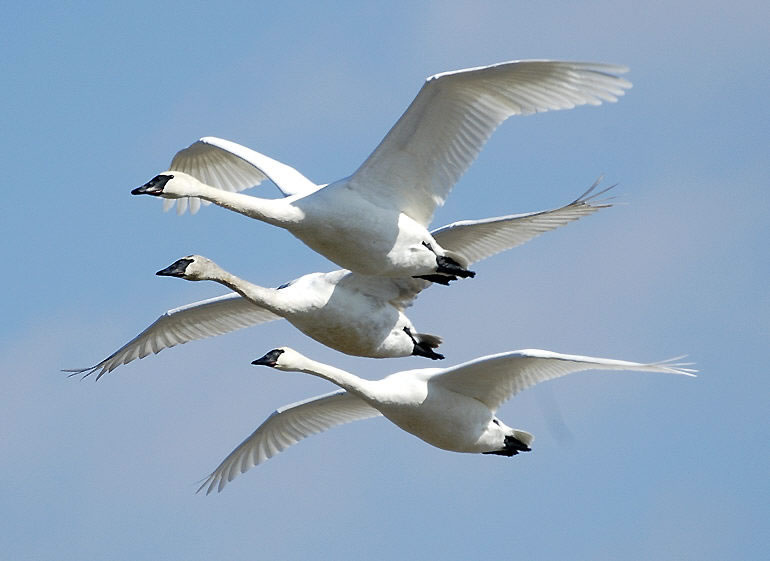 Three Trumpeter Swans flying at Riverlands Migratory Bird Sanctuary, Missouri, USA.